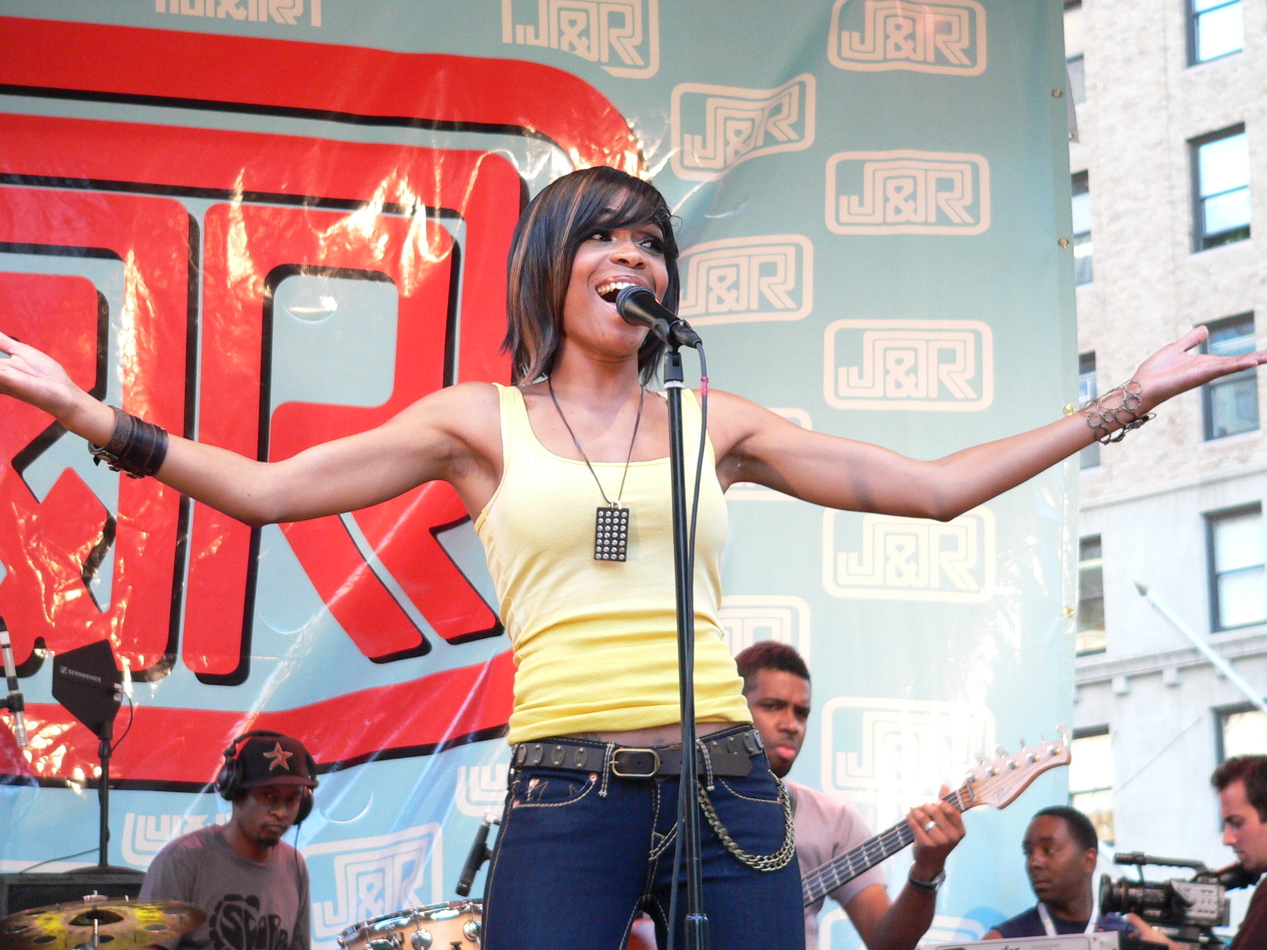 Live in City Hall Park